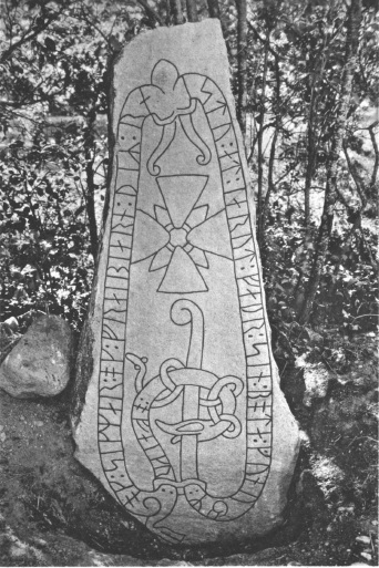 Runestones of Uppland, U43